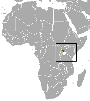 Ugandan Lowland Shrew (Crocidura selina) range